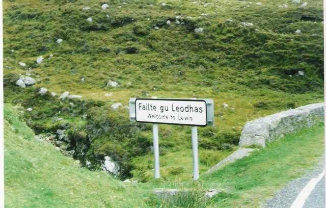 Border between Harris and Lewis